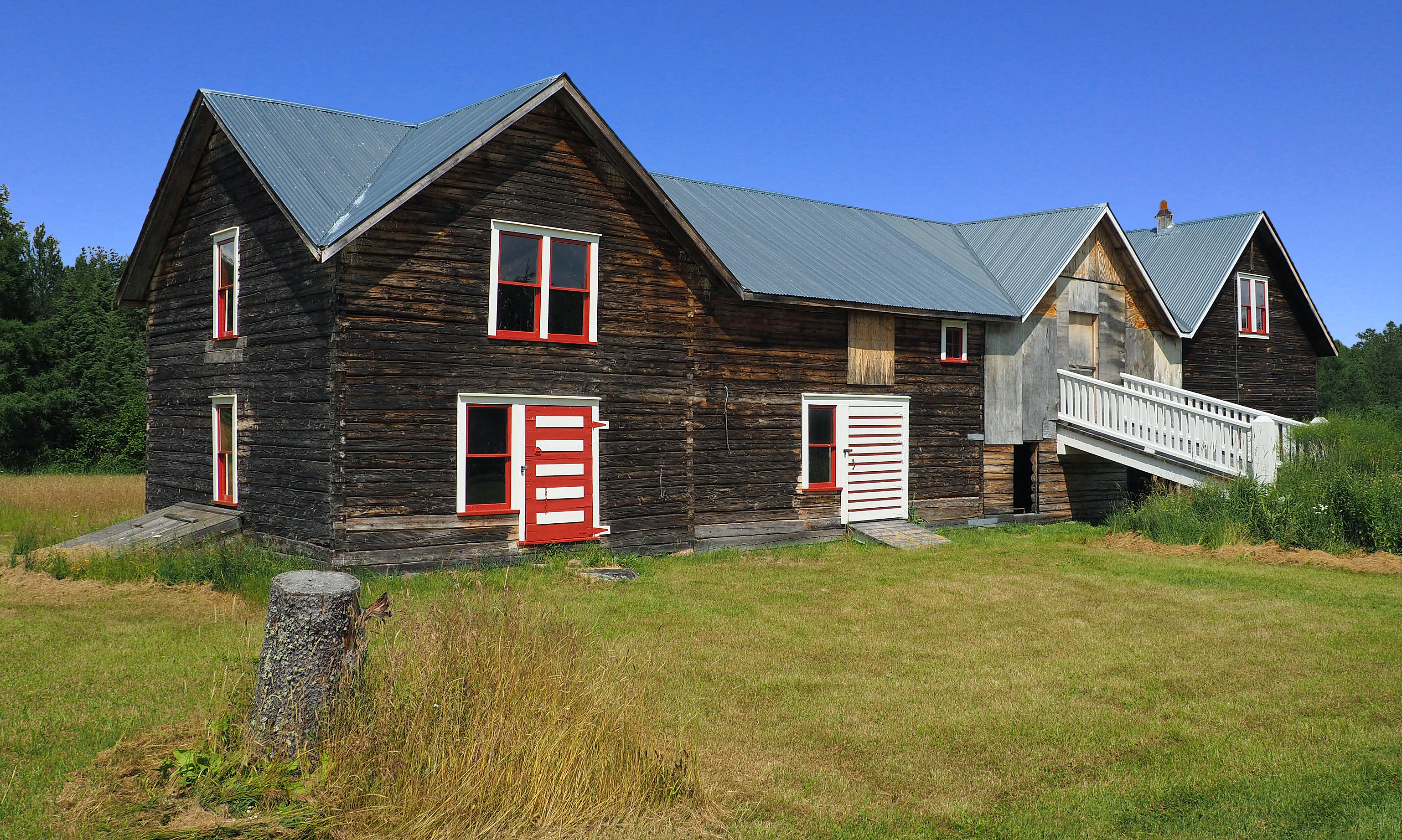 Alex Seitaniemi Housebarn, 8162 Comet Rd, Waasa Township, Minnesota, USA. Viewed from the southwest.